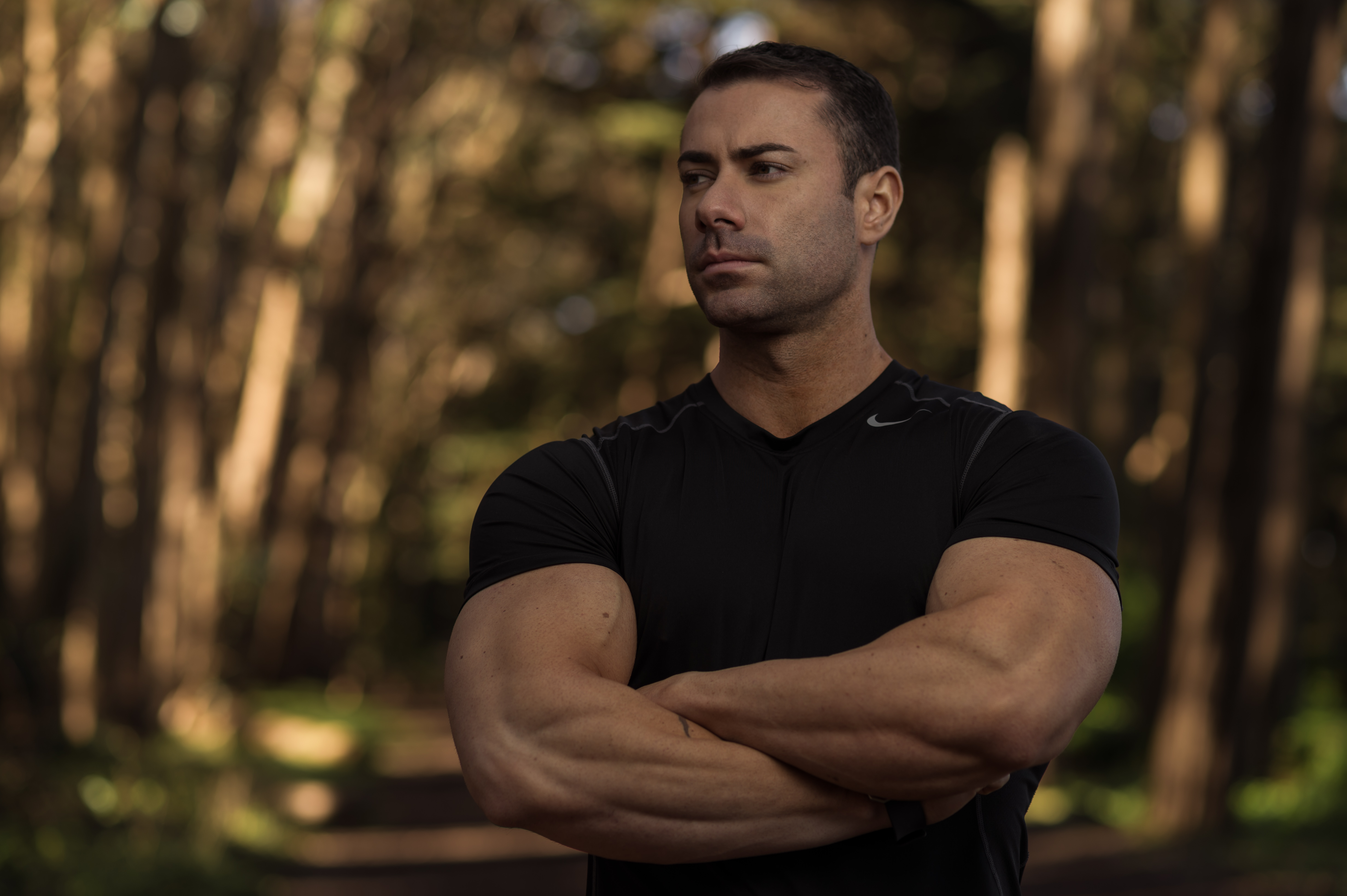 Leading Fitness and Nutrition Body Transformation Expert